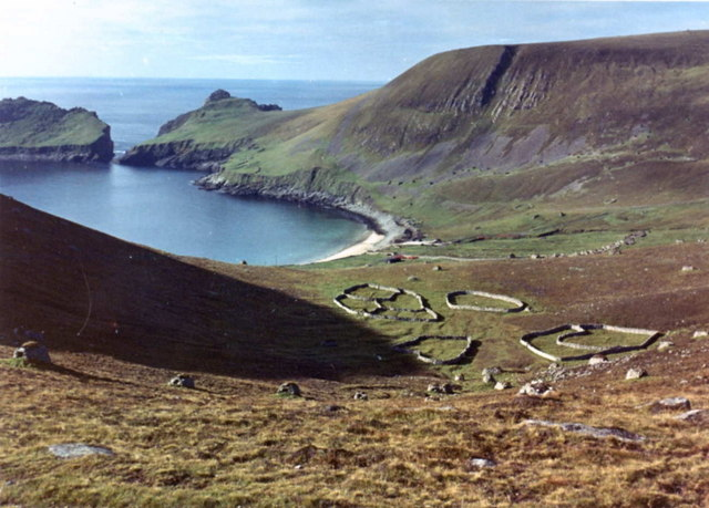 An Lag Bho'n Tuath, St Kilda Enclosures and cleitan above the old village area of St Kilda. The heavy shadow is that of Oiseval cast by the morning sun.